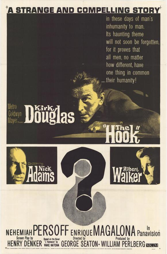 Advertising poster for the film The Hook